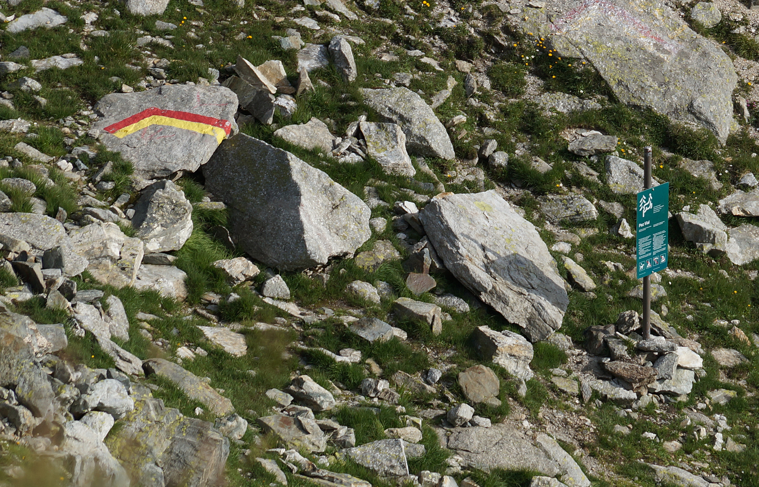 Sign and border marks of a federal area where hunting is prohibited in Switzerland. Fuorcla da Lavaz, Medel, Grisons